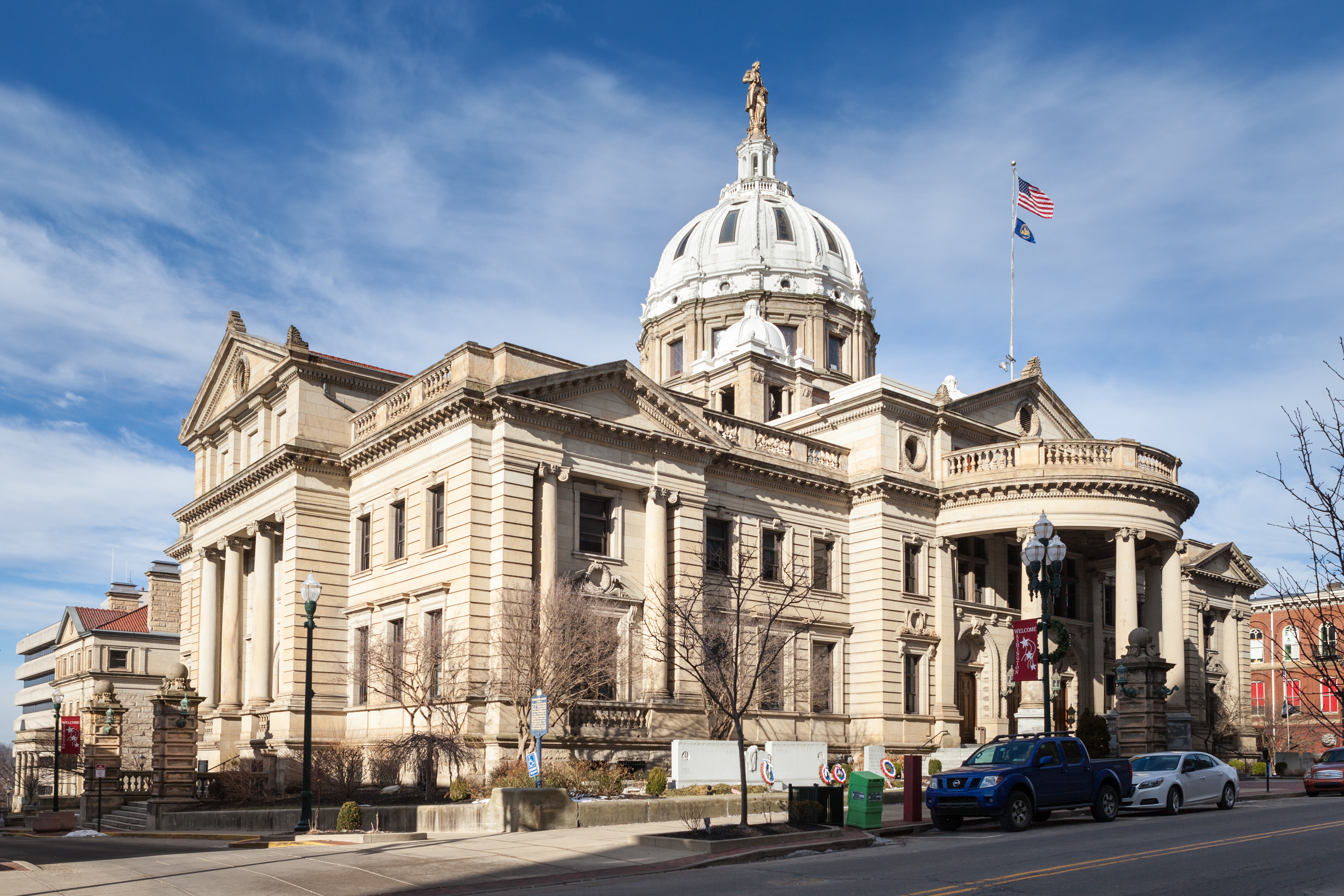 Washington County Courthouse (Pennsylvania) from S. Main Street, looking northwest.